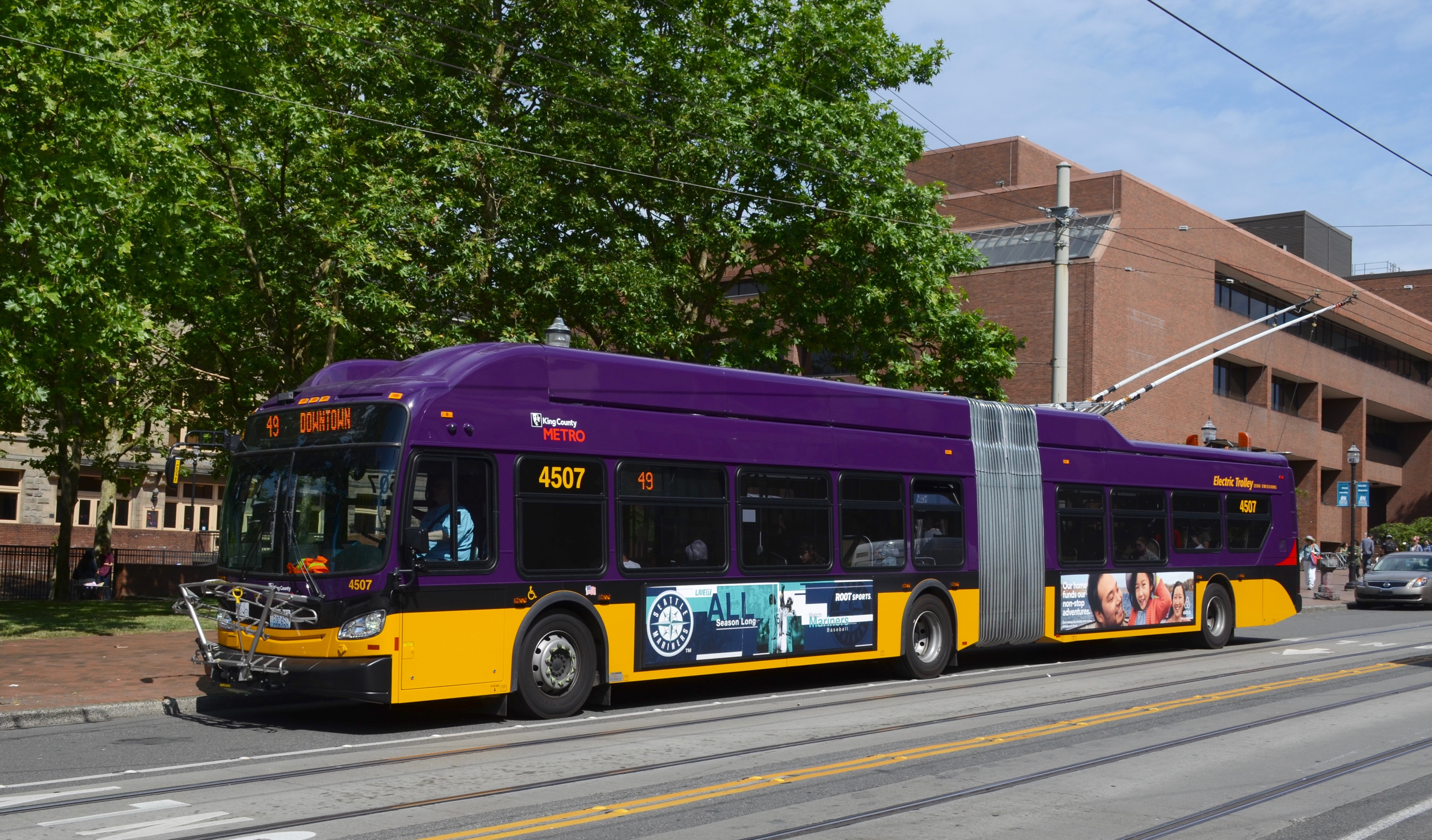 Seattle: King County Metro trolleybus 4507, a 2015-built New Flyer Xcelsior XT60 trolleybus, southbound on Broadway just north of Pine Street, inbound on route 49. It entered service in early March 2016. Seattle Central College is in the background.